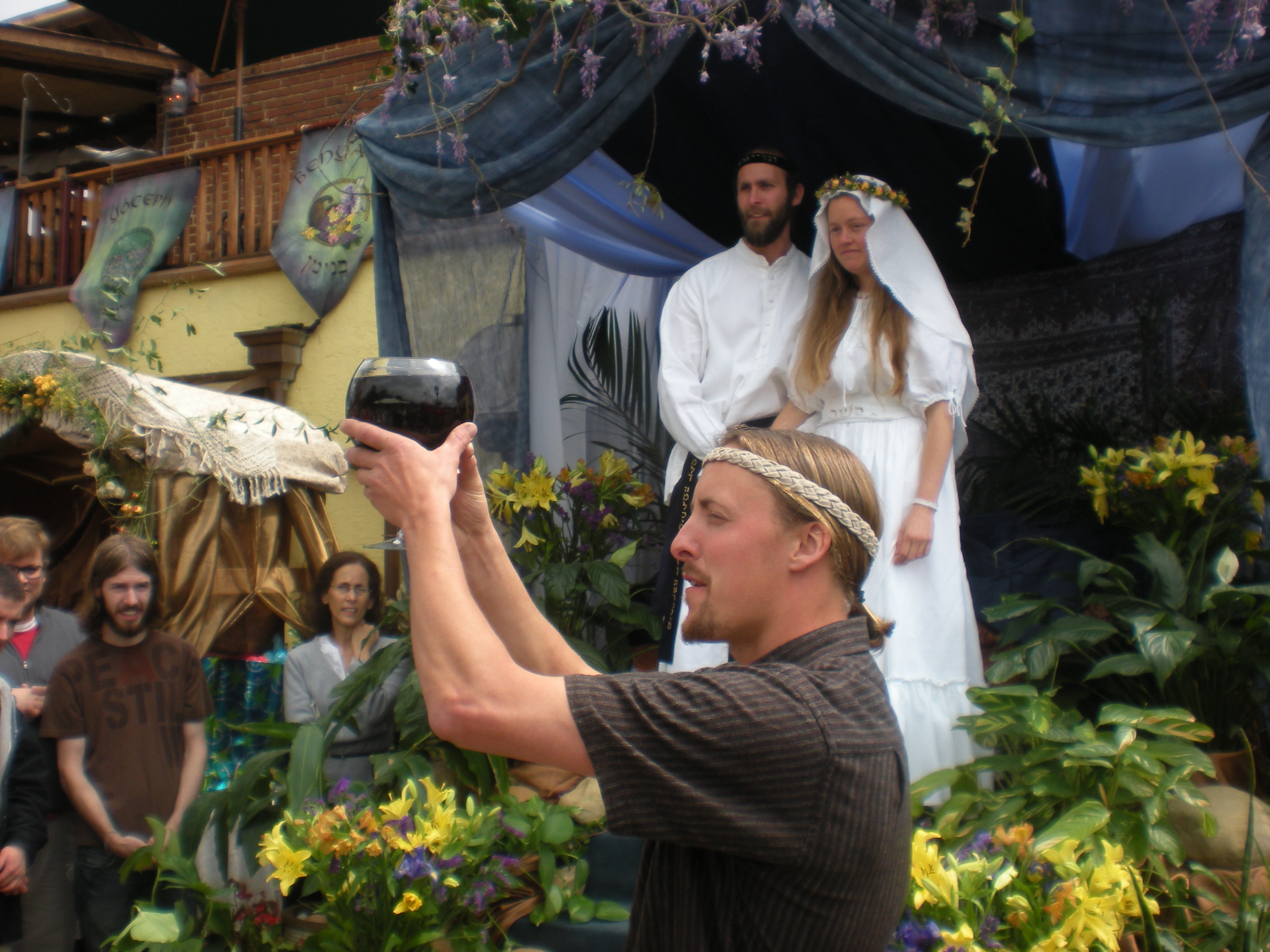 The "Victor Cup" a chalice holding the "blood of the lamb" is presenting before being consumed by baptized members